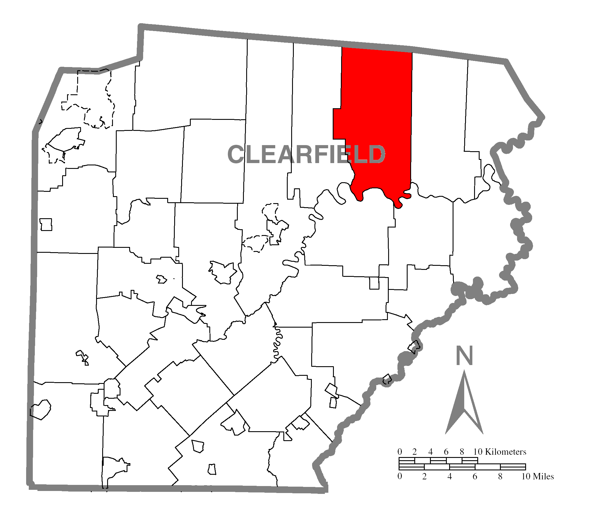 A map of Clearfield County showing Girard Township, Pennsylvania (alternate) highlighted on the map.